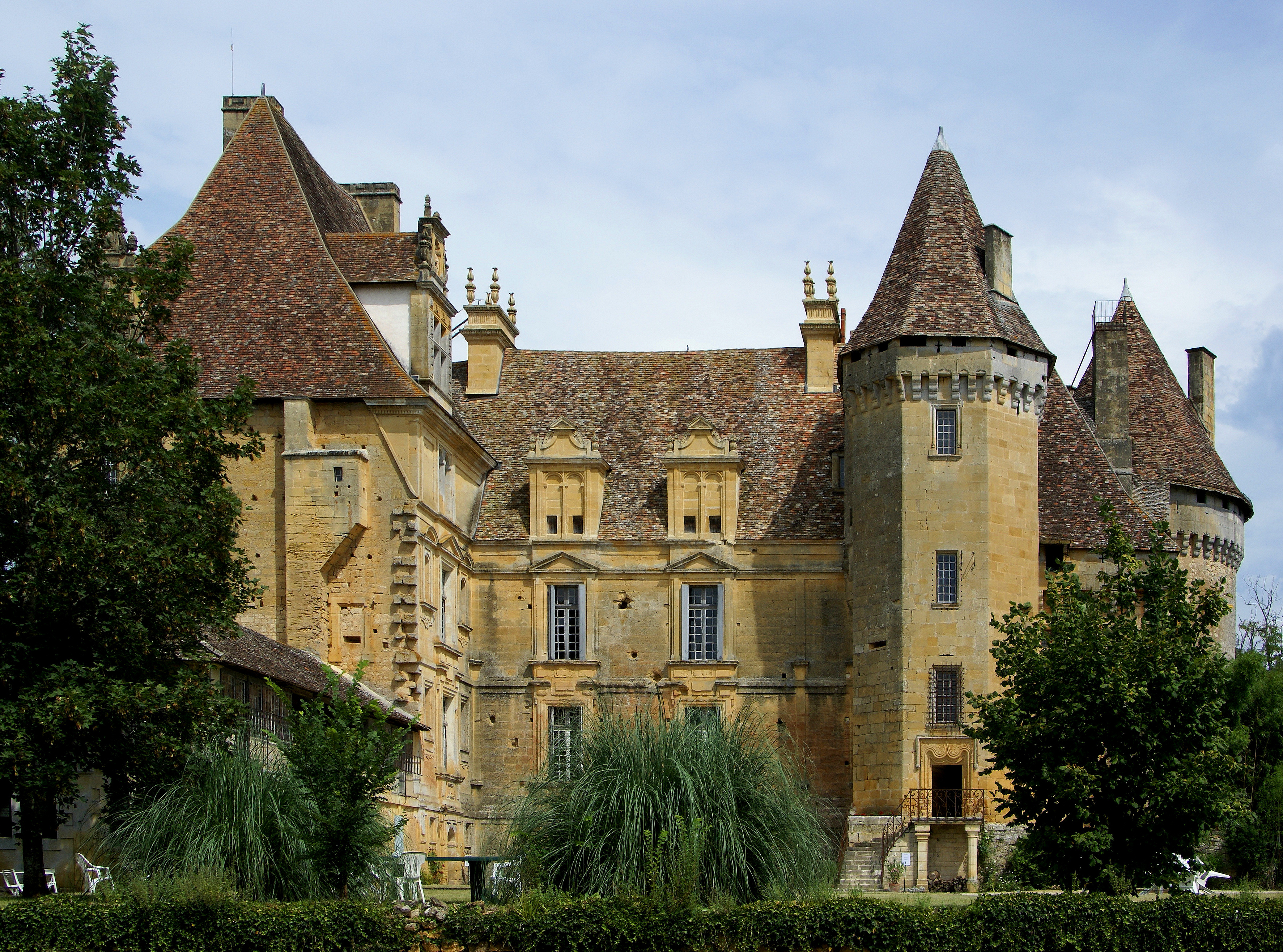 Castle of Lanquais, Dordogne, France